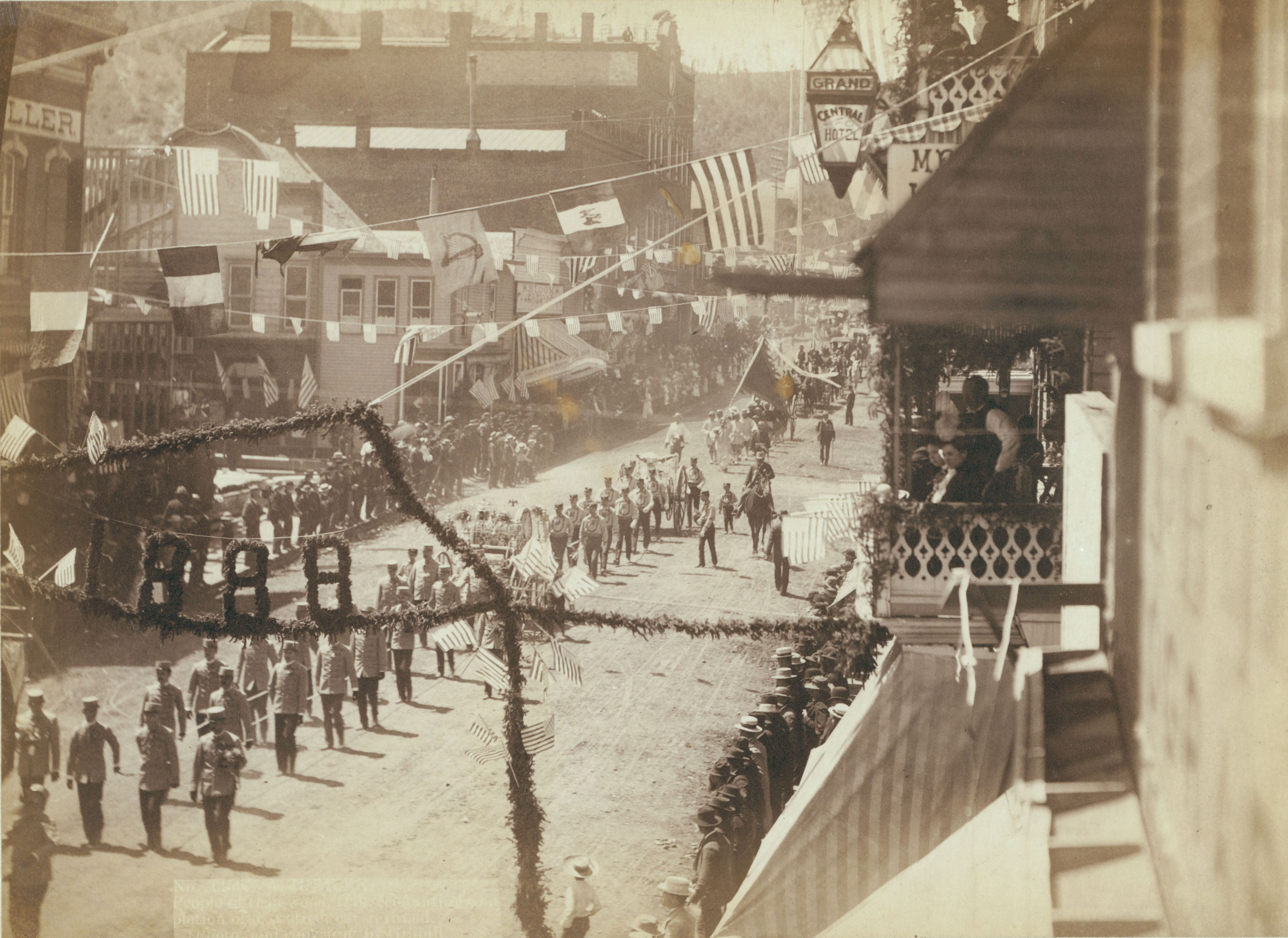 Original title People of Deadwood celebrating completion of a stretch of railroad